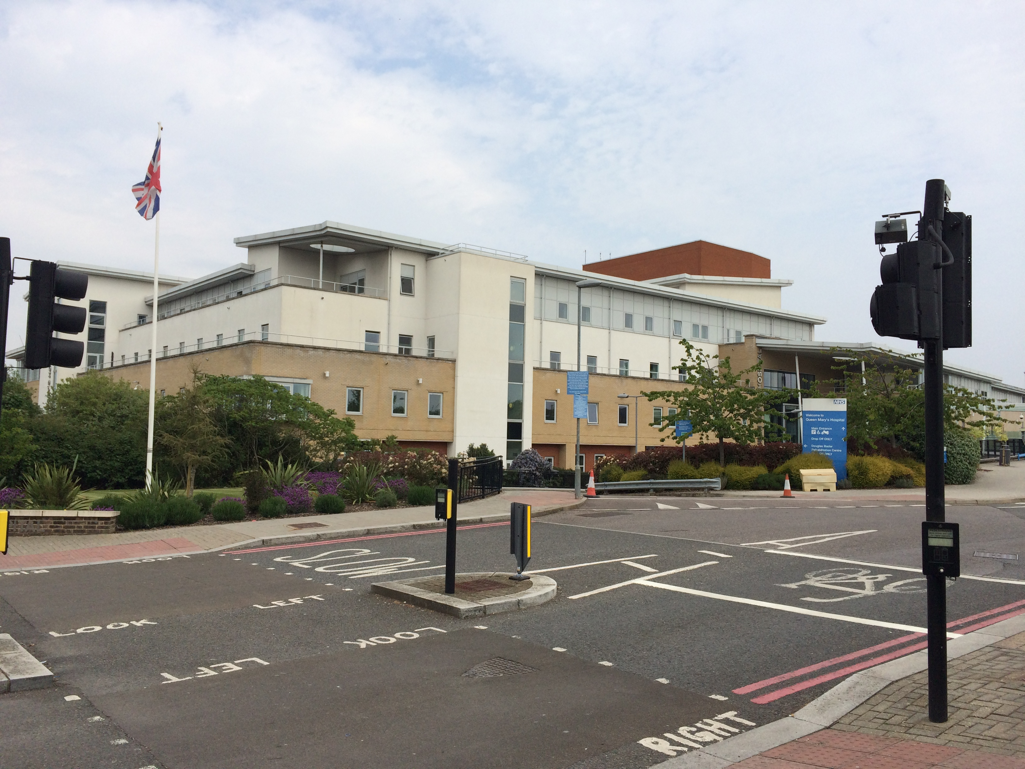 Queen Mary’s Hospital, 27 April 2020